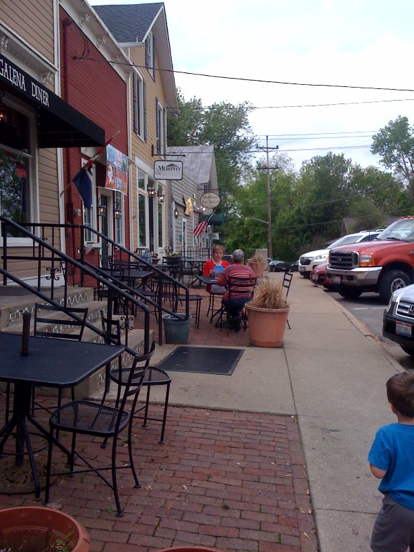 May 10, 2010 Self made photo, Ben Turover